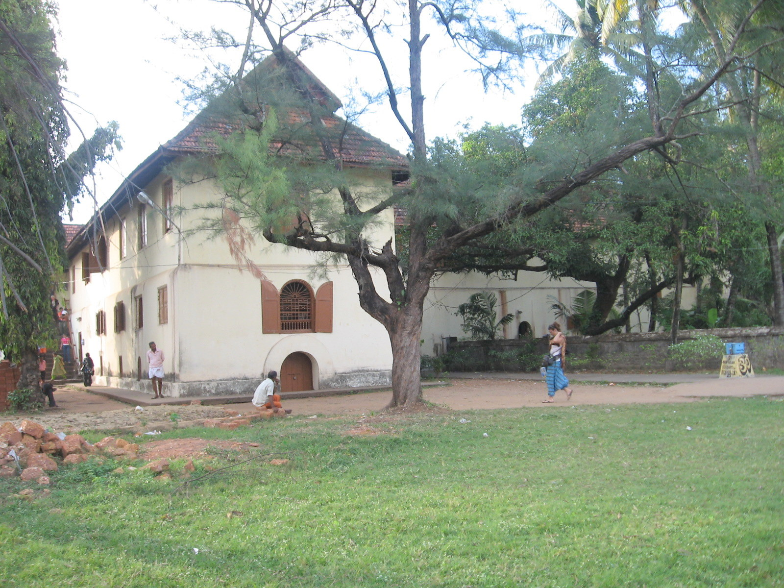 Dutch Palace, Kochi, Kerala